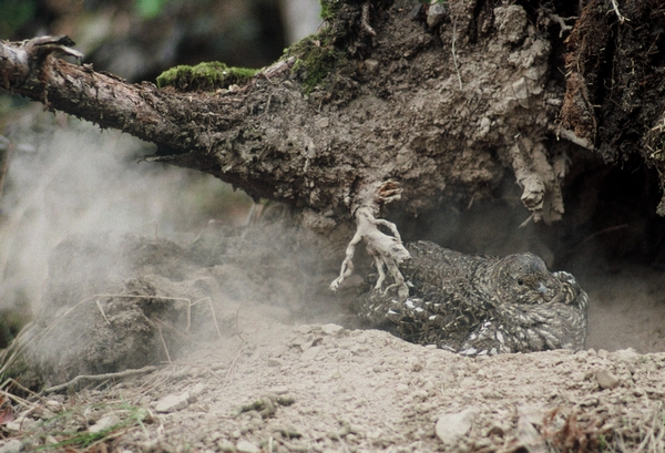 Sand-bathing female Falcipennis falcipennis